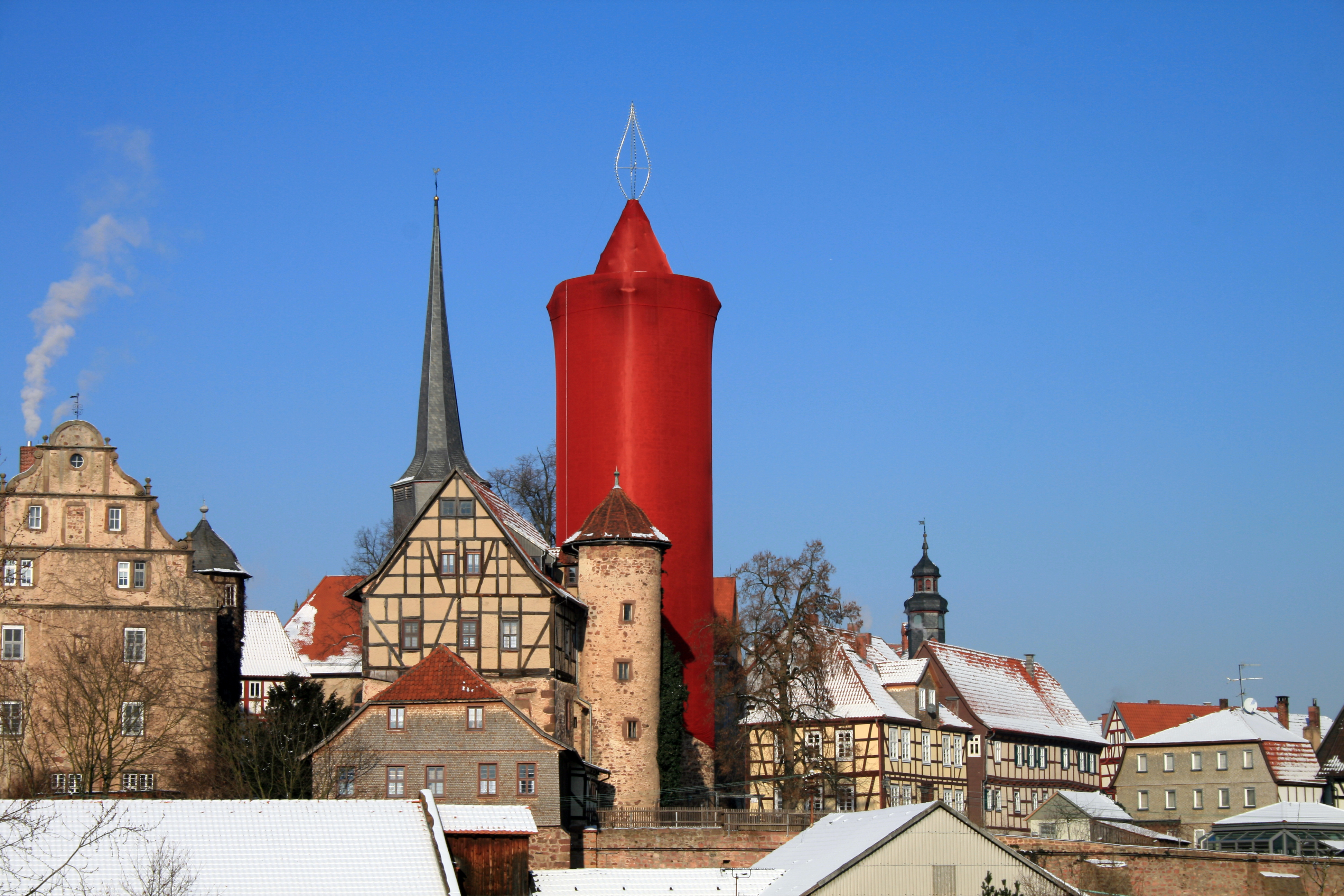 View of the picturesque medieval district of Schlitz with the "Hinterturm" dressed as the biggest christmas candle.